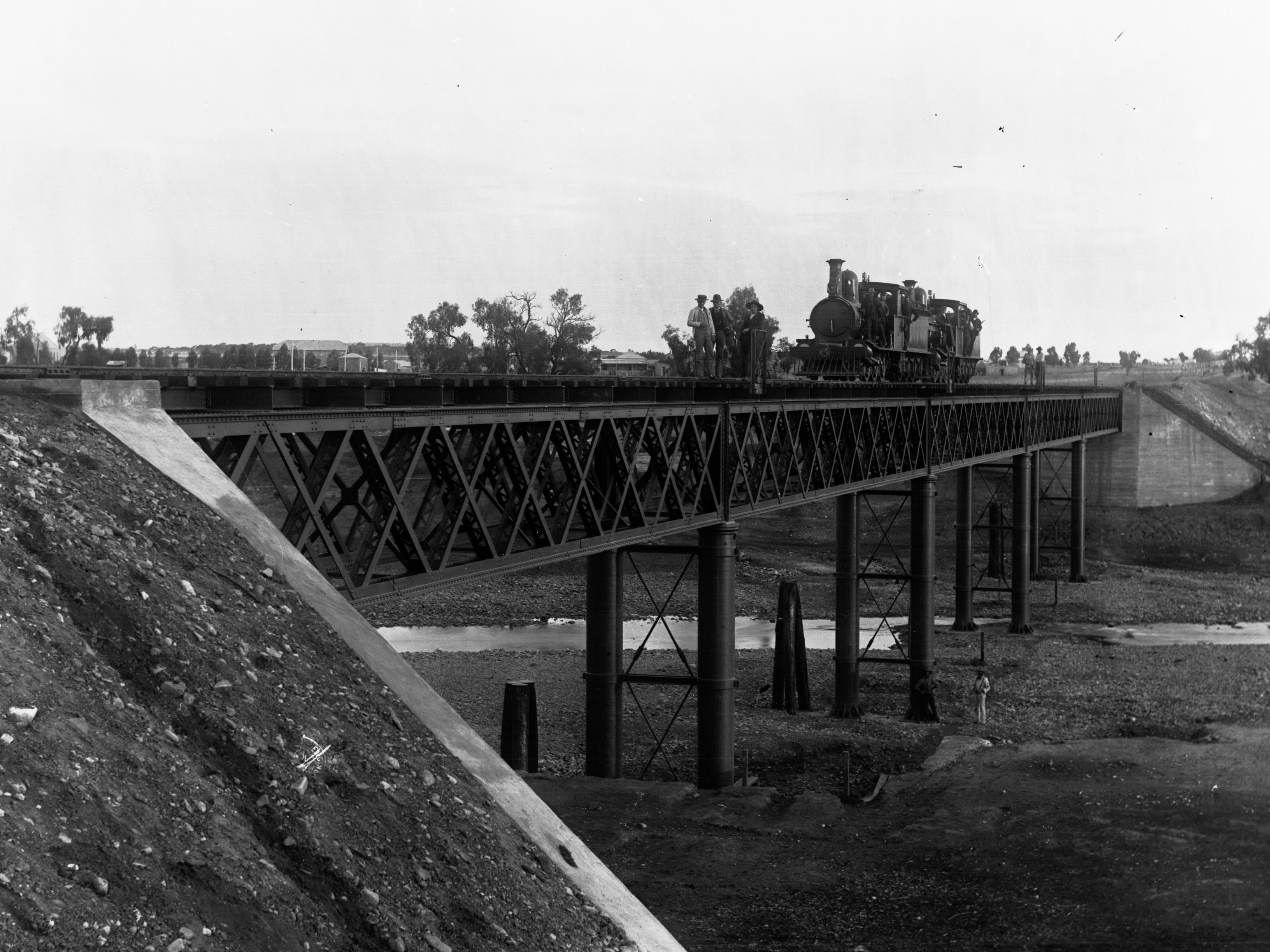 This is the Yacka Bridge - Ref "Hard Yacka" (Ellis) p. 61. The line was opened in 1894, photo shows the new bridge being tested (G Brooks) - Date and title changed to reflect G Brooks' notes.